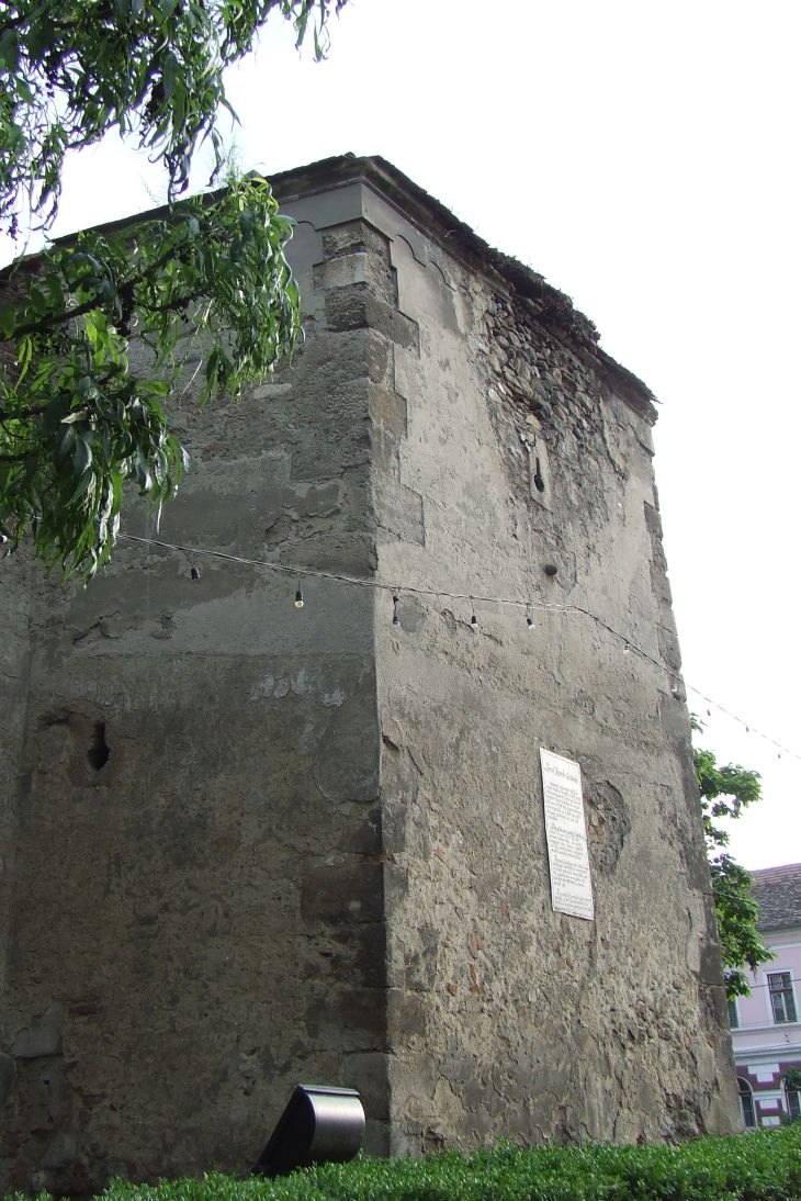 Aiud Citadel, Romania 04